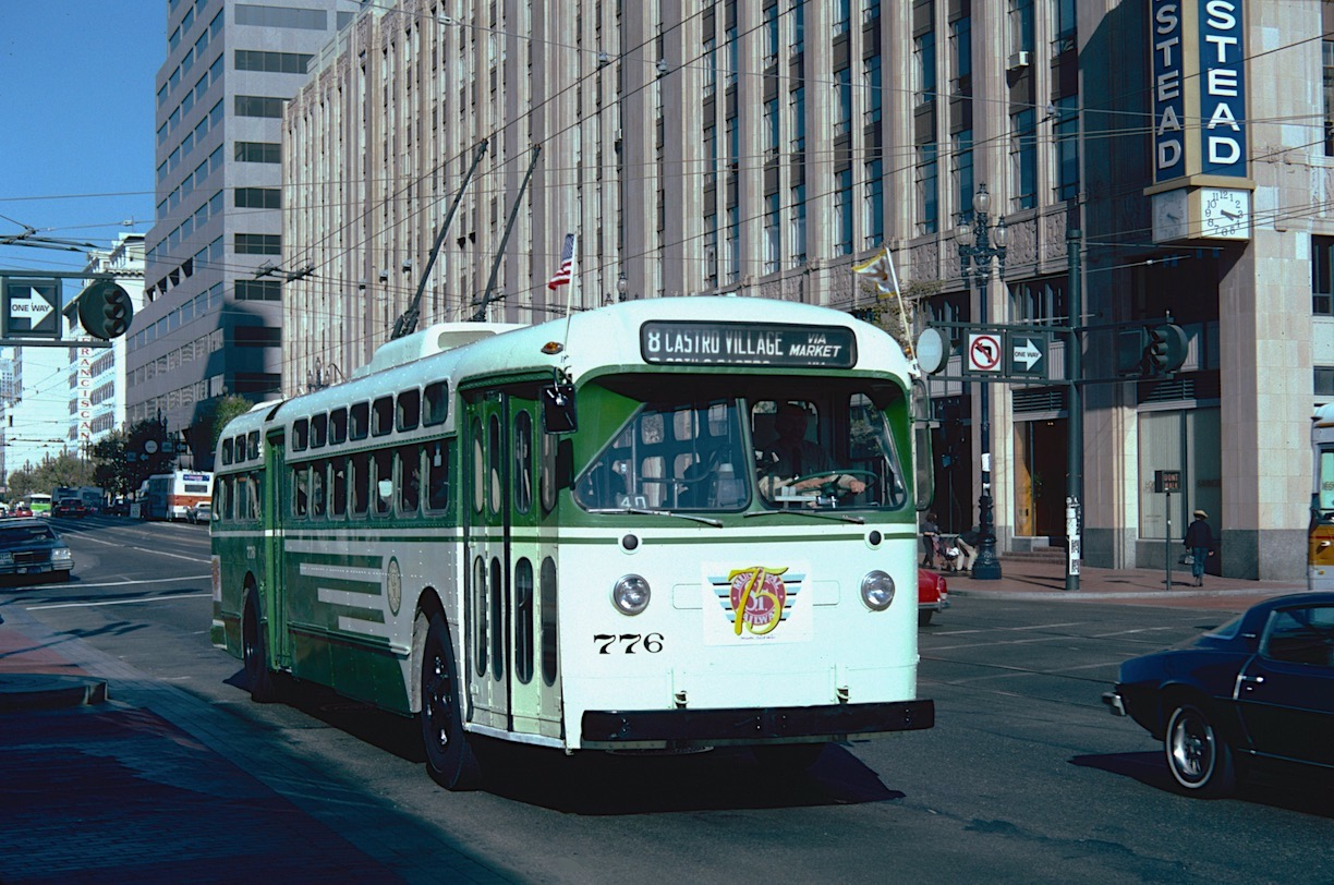 During the 1987 San Francisco Historic Trolley Festival, San Francisco Muni trolley coach (trolleybus) No. 776, a 1950 Marmon-Herrington, is outbound on Market Street at 10th Street, in regular service on route 8-Market. On its front end is the logo that Muni used in celebration of its 75th anniversary year (1987).